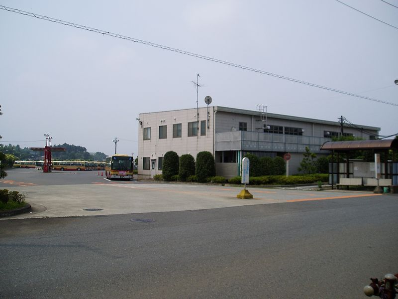 Kanagawa Chuo Kotsu Totsuka Branch